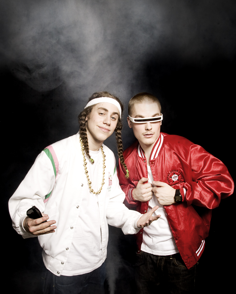 Pressbild "Fonky Fly" för rapduon "Mofeta & Jerre"